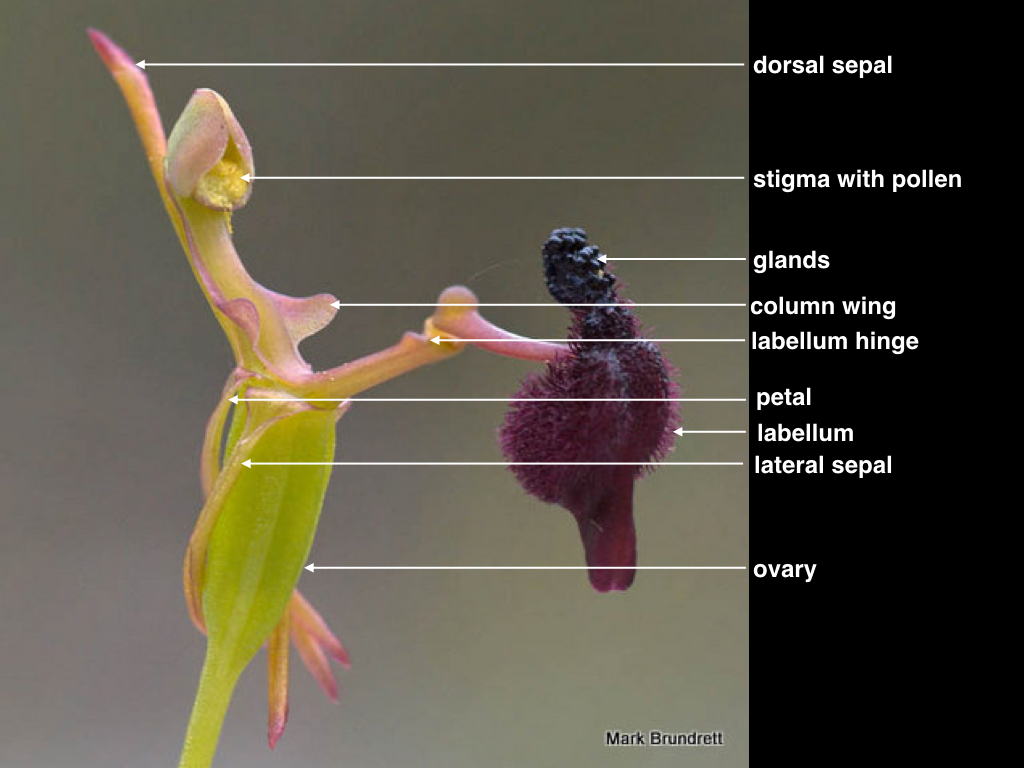 Labelled image of Drakaea glyptodon